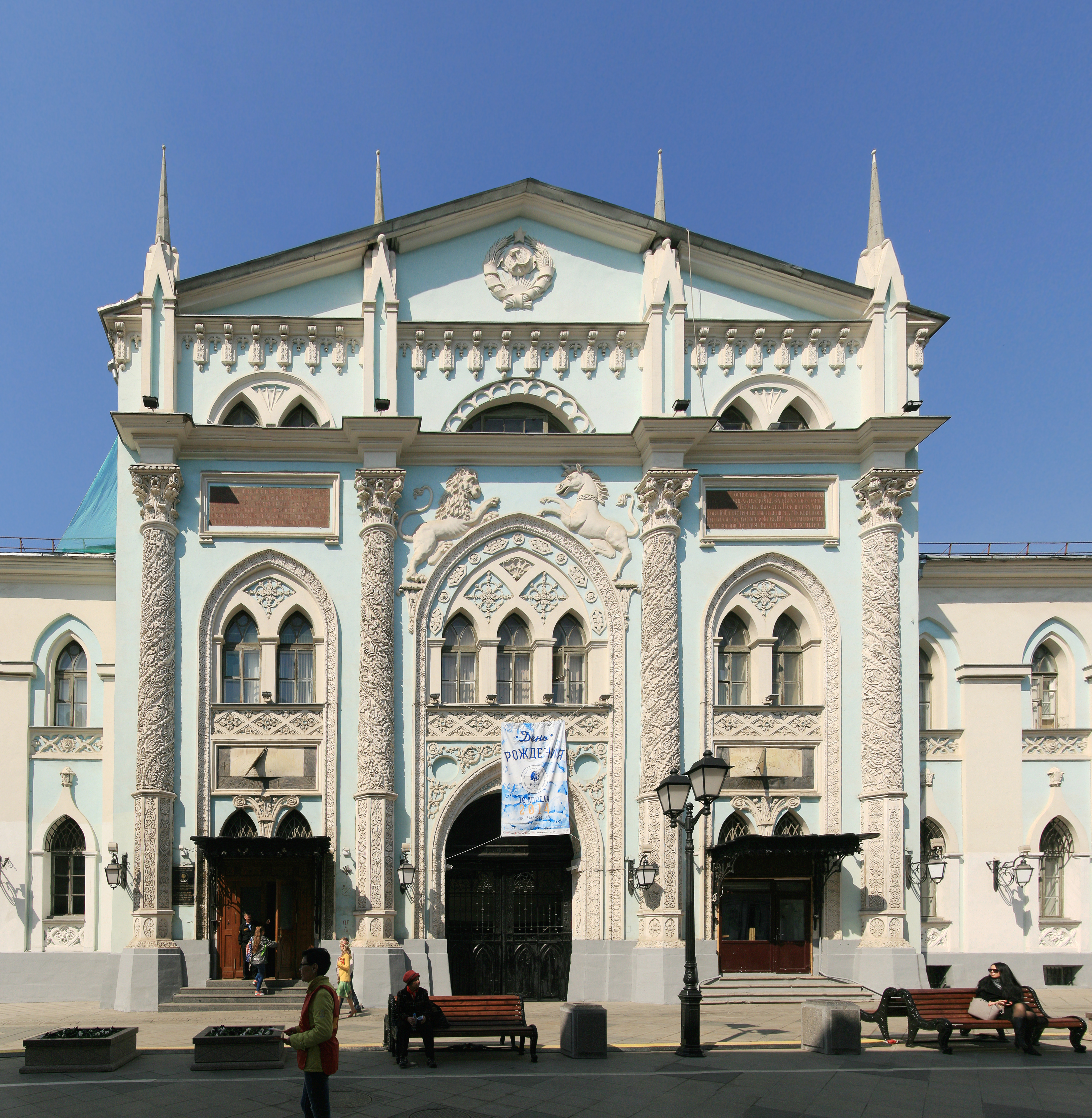 Moscow Print Yard, NIkolskaya street 15, Moscow